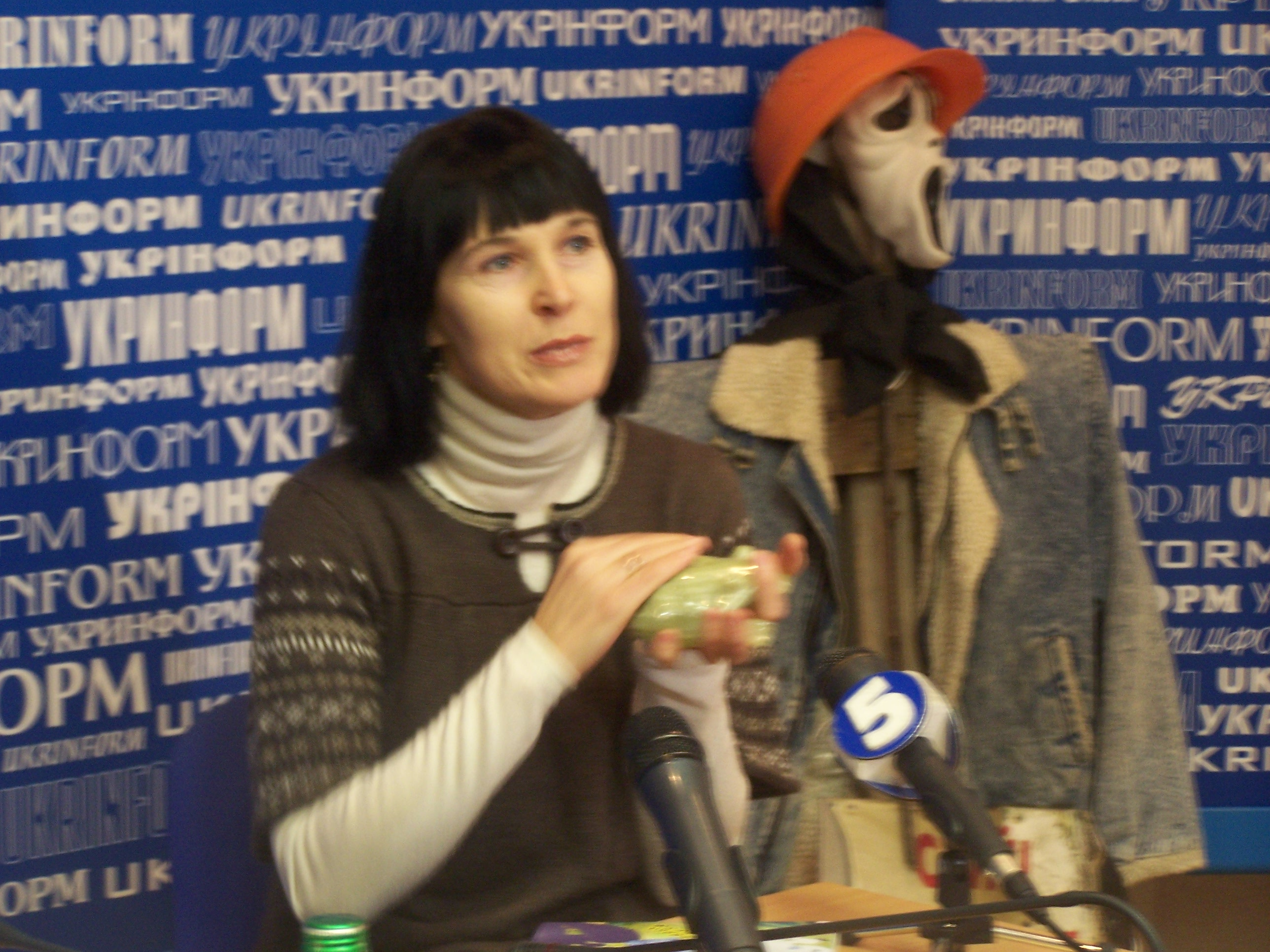 Angelina Yar presenting "Spirit Territory" book.